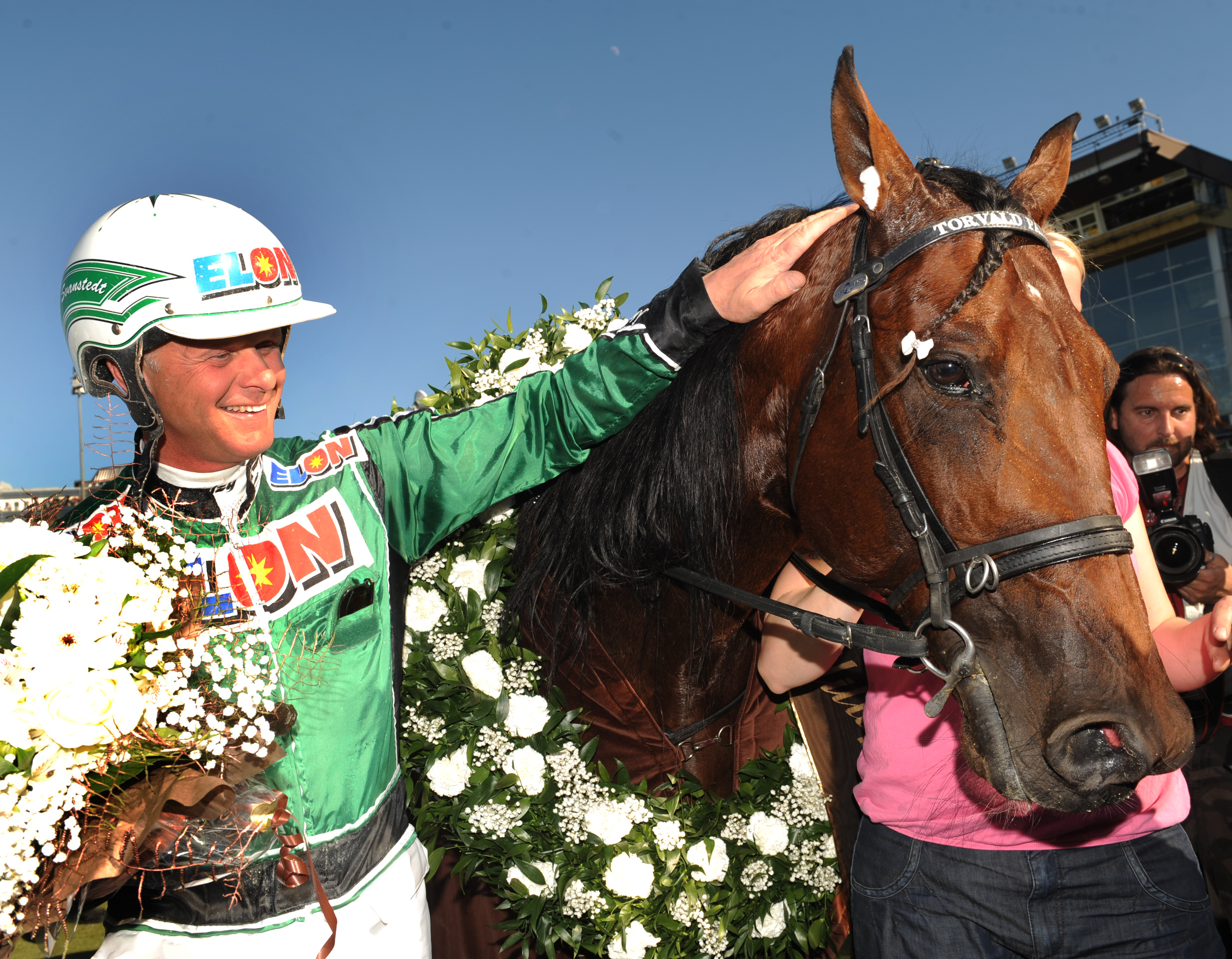 Torvald Palema & Åke Svanstedt after winning Elitoppet, 2009-05-31.